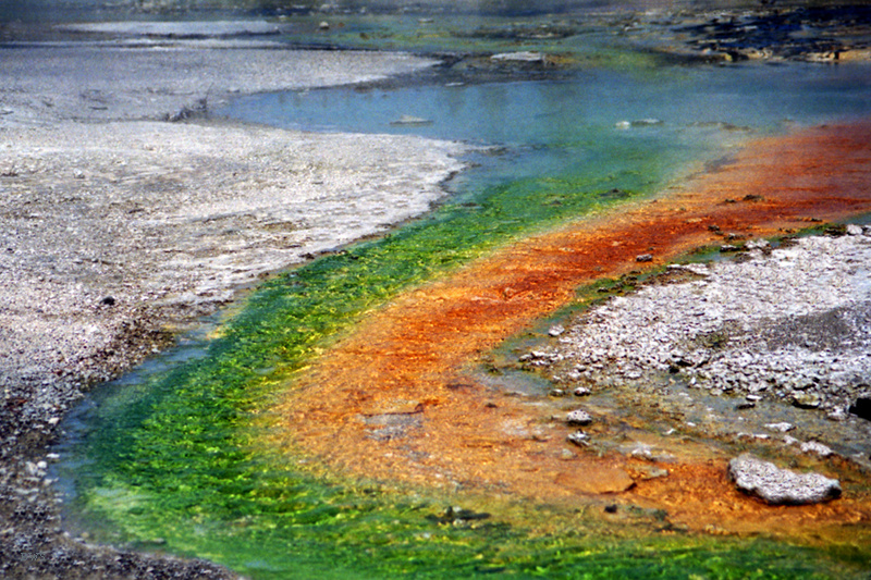 Yellowstone National Park, Wyoming, USA, hot springs with green algae and orange bacteria (thermus aquaticus)